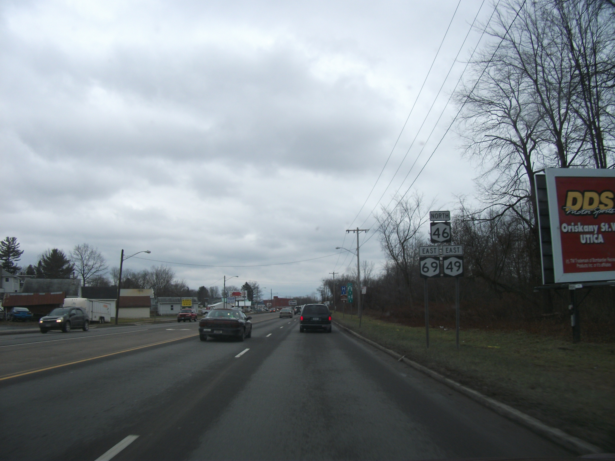 Northbound on New York State Route 46 and eastbound on New York State Route 49 and New York State Route 69 in Rome.